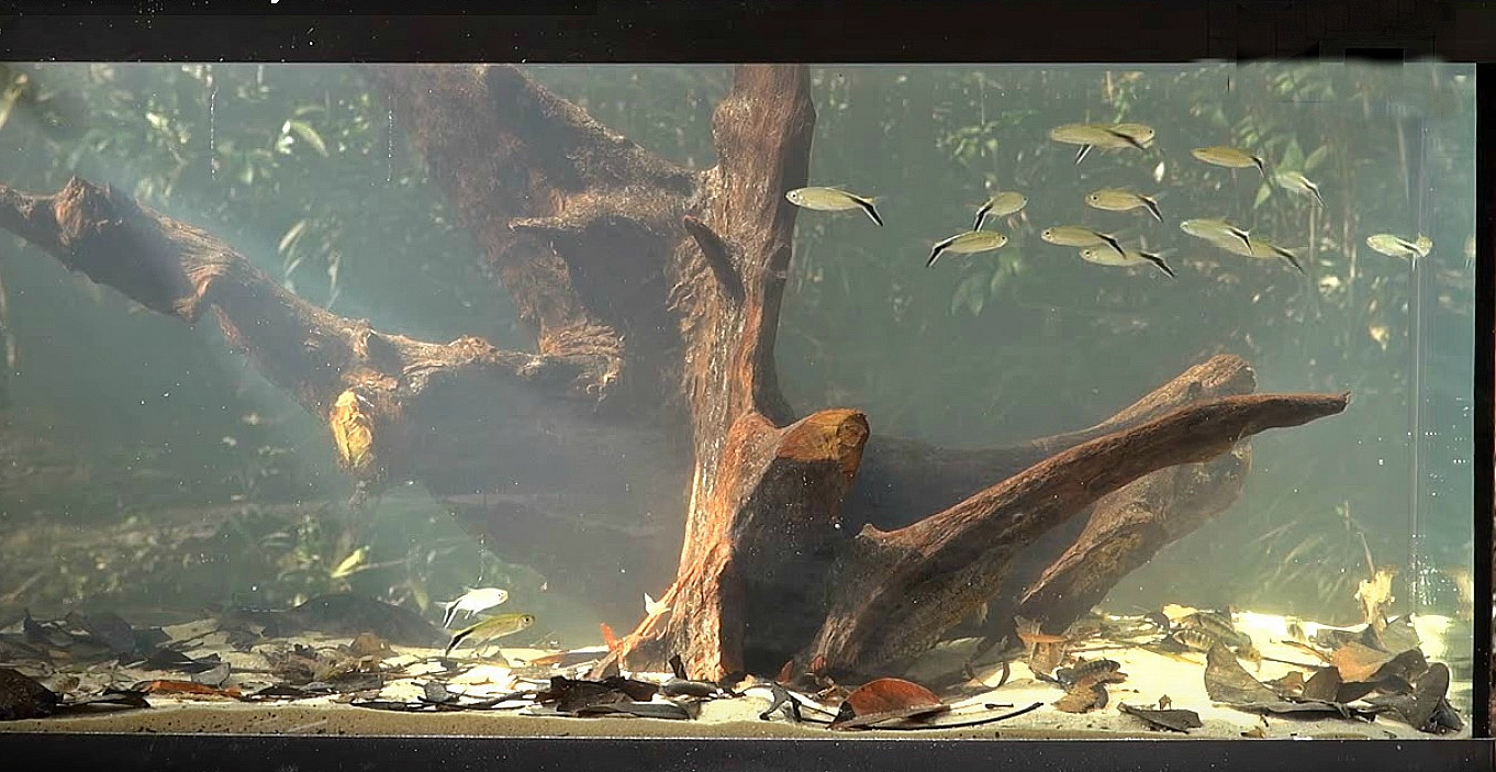 Wild Aquarium